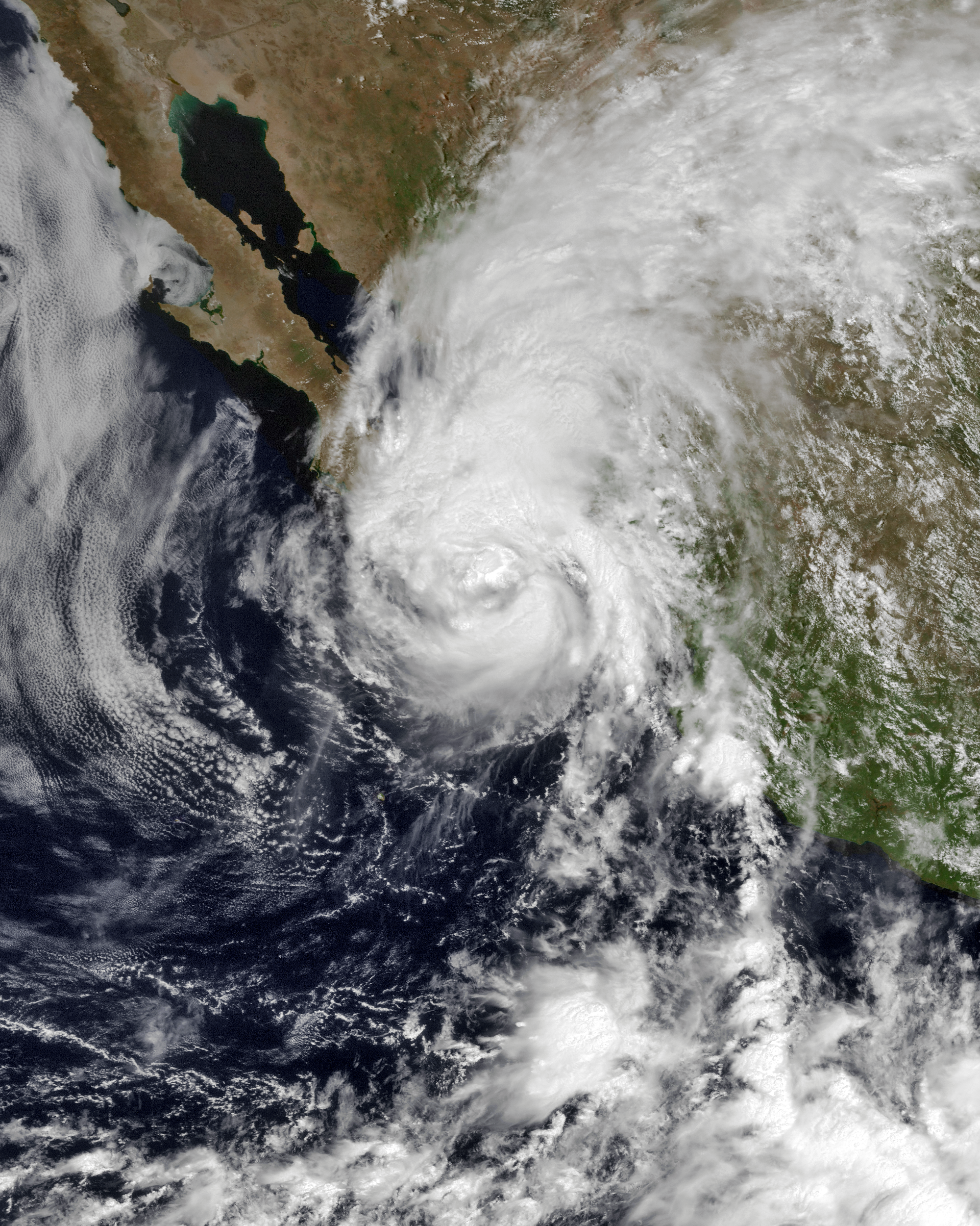 Hurricane Ismael near peak intensity on September 14, 1995.